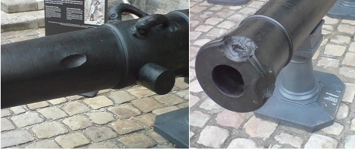 Cannons at L'Hôtel des Invalides, Paris, France